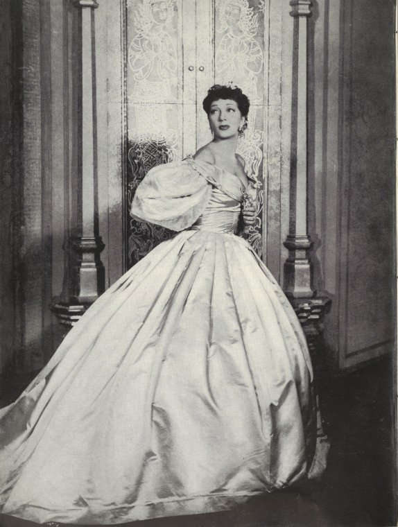 Gertrude Lawrence as Anna, from souvenir program for The King and I. Lacks any copyright notice, so it's fair game. Image can be found here